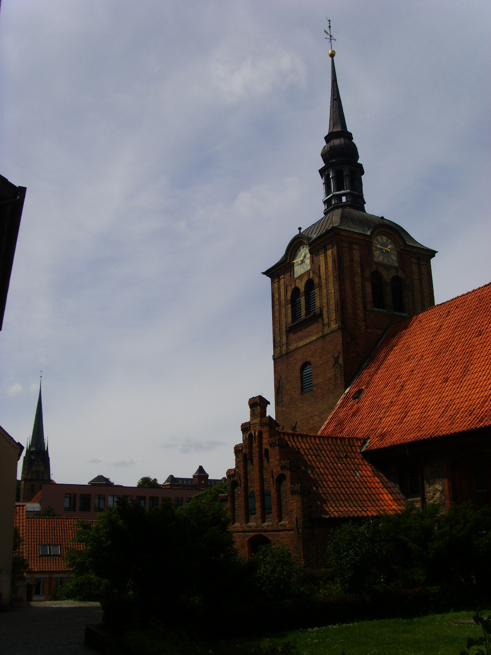 Johanniskirche in Flensburg, town's oldest church, 12th century.